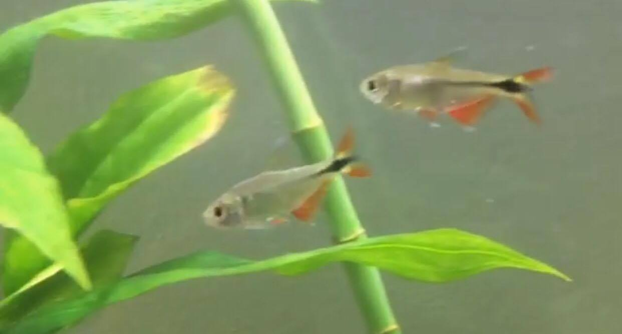 Two Buenos Aires tetras in a 55 gallon tank.